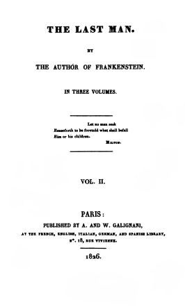 Title page from an 1826 edition of The Last Man published in Paris, Volume 2